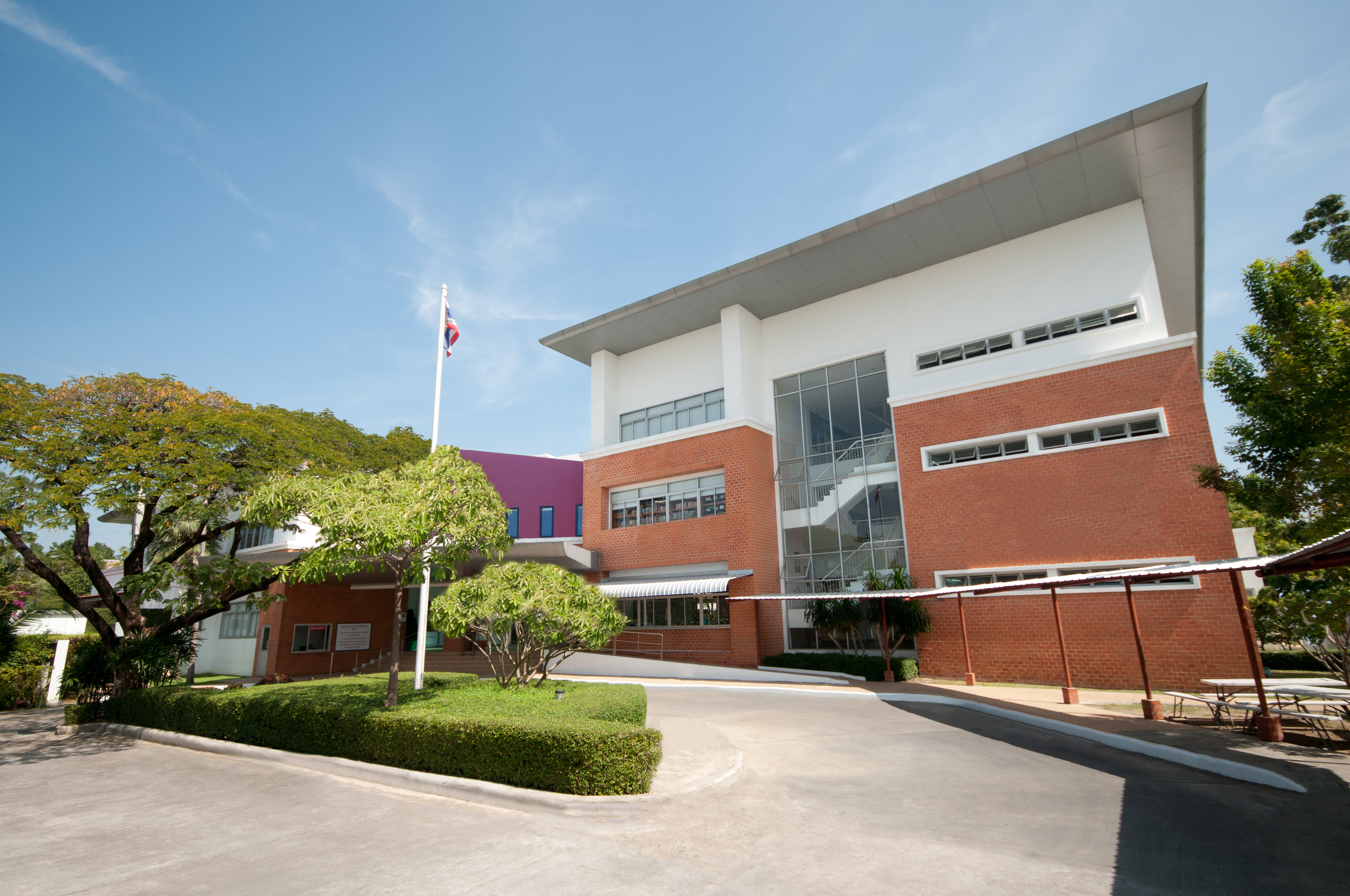 Main courtyard